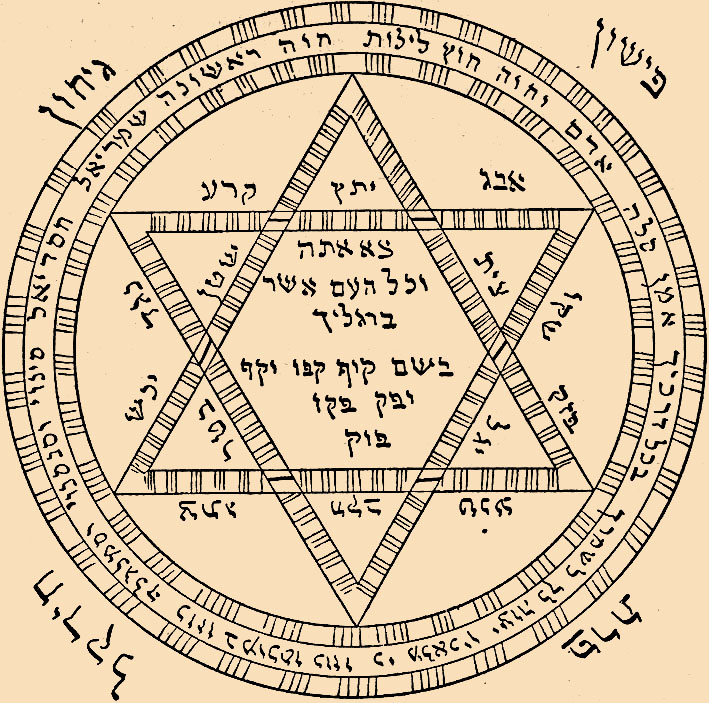 Illustration from Brockhaus and Efron Jewish Encyclopedia (1906—1913)